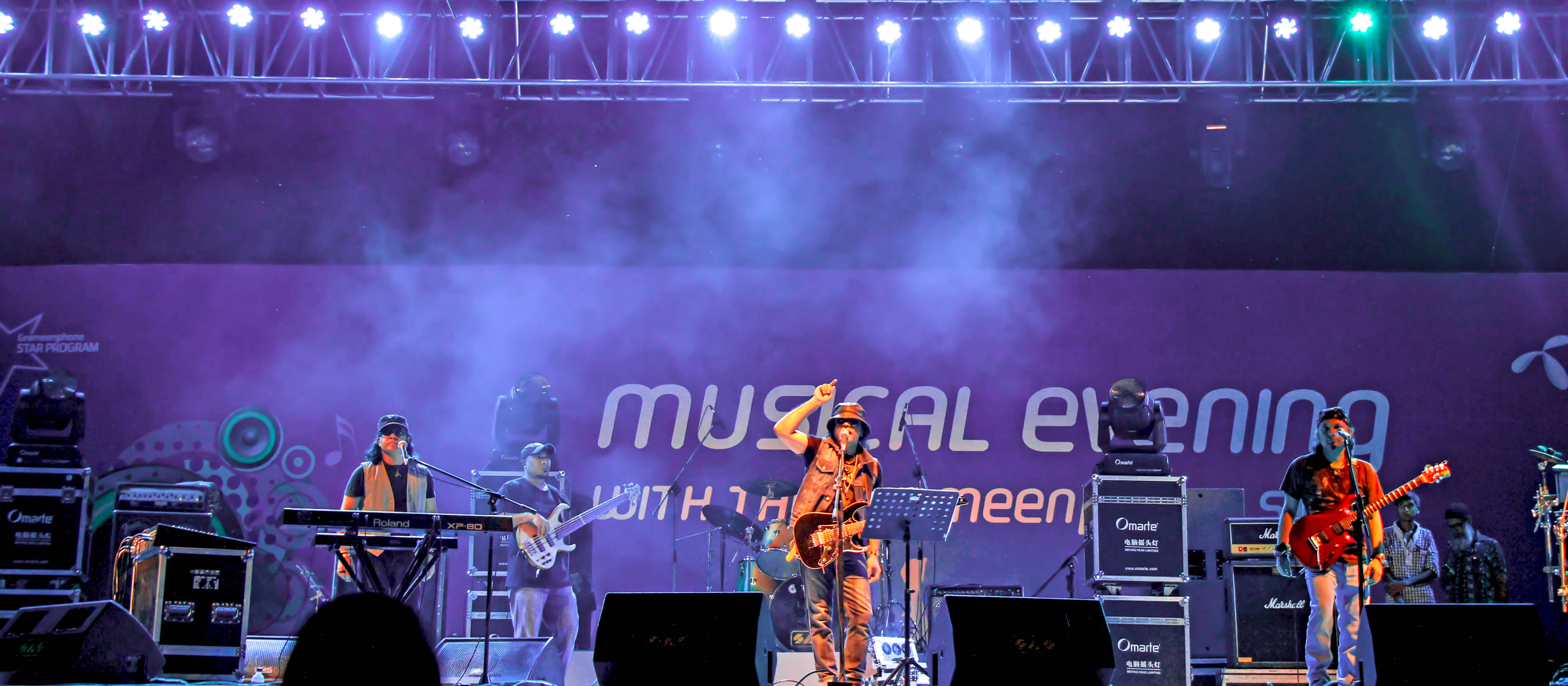 MIles perform in a concert, Bangladesh